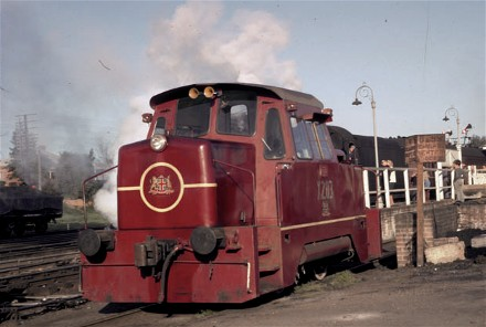 Shunting Tractor X203 rests in the up dock at Wagga Wagga